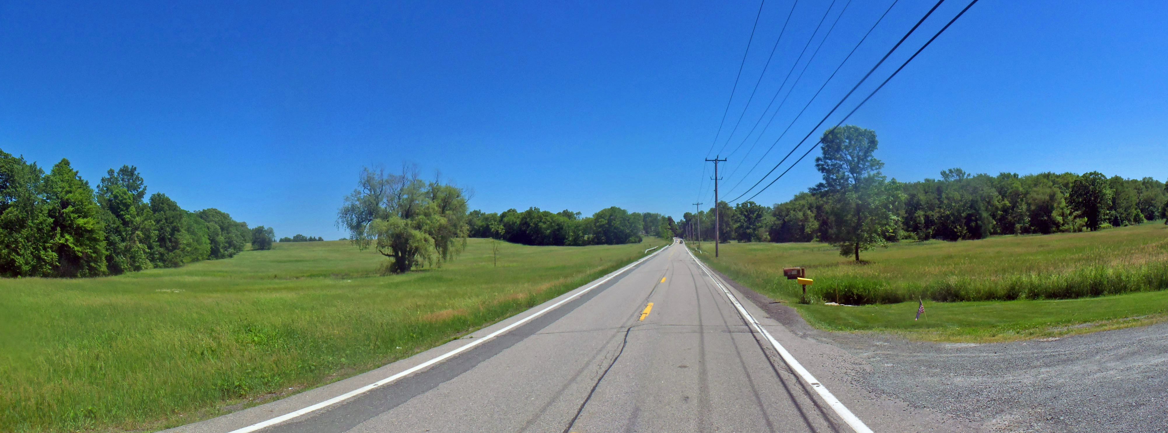 View looking east along NY 52 a mile west of Walden.